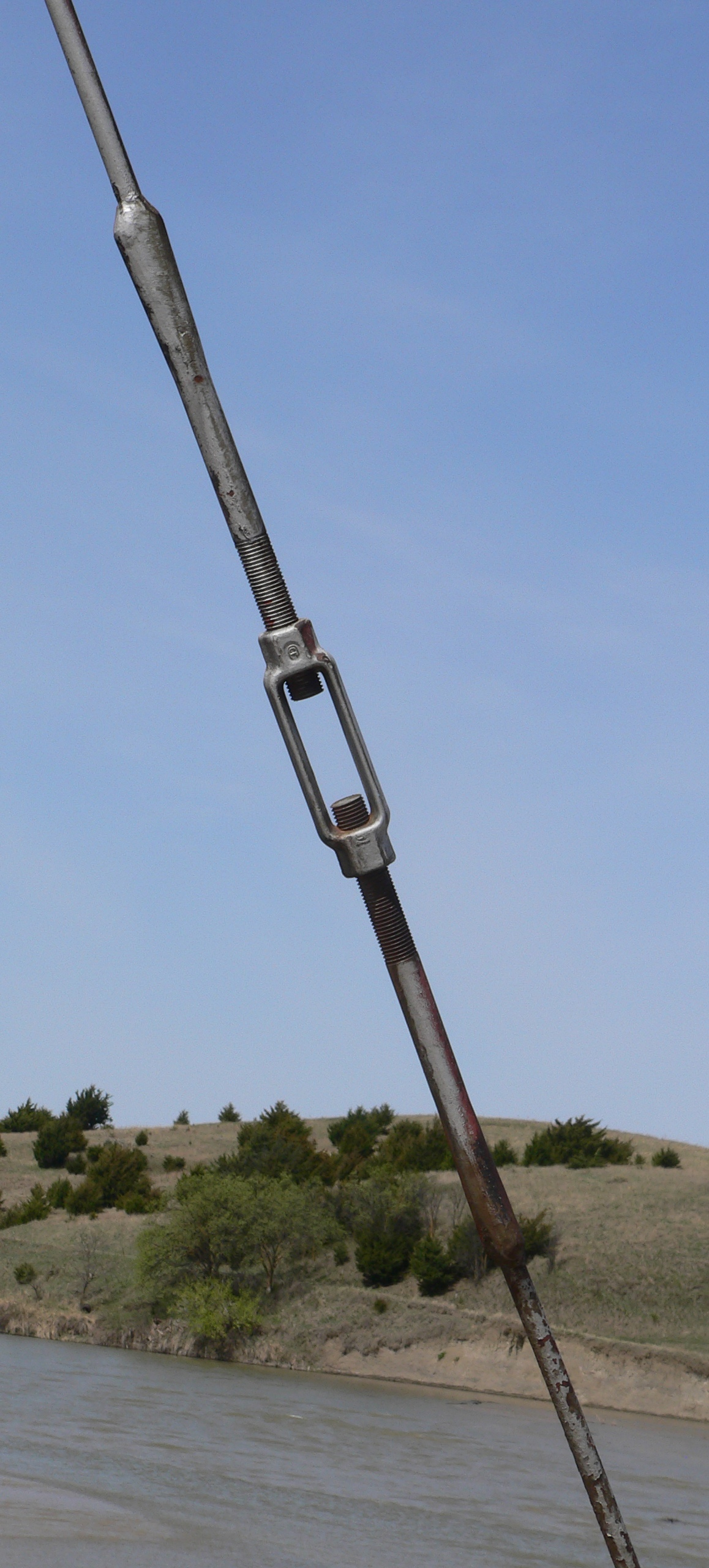 Turnbuckle on Carns State Aid Bridge, crossing the Niobrara River from Brown County, Nebraska on the south bank to Keya Paha County, Nebraska on the north. The northern portion of the bridge is a set of five concrete-filled spandrel arch spans; it was built in 1913. A sixth southern span and the approach to the bridge were washed out in 1962; the gap was filled with two truss spans salvaged from elsewhere in the state. The bridge is listed in the National Register of Historic Places.